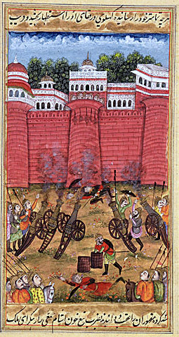 Ia) Shah Jahan watches the assault on Daulatabad Fort in 1633; b) Capture of Daulatabad Fort in 1633, Folio from Lahori’s Padshahnama, circa 1800 Painting; Watercolor, Opaque watercolor, gold, and ink on paper, a) Sheet: 11 7/16 x 6 1/2 in. (29.05 x 16.51 cm); Image: 6 7/8 x 4 1/16 in. (17.46 x 10.31 cm); b) Sheet: 11 7/16 x 6 1/2 in. (29 x 16.5 cm); Image: 6 3/4 x 4 3/8 in. (17.14 x 11.11 cm) Mr. and Mrs. Allan C. Balch Collection (M.45.3.545a-b) South and Southeast Asian Art Department.